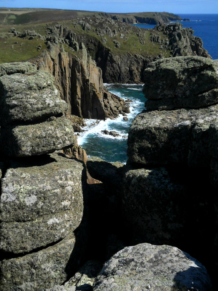 scogliere a land's end